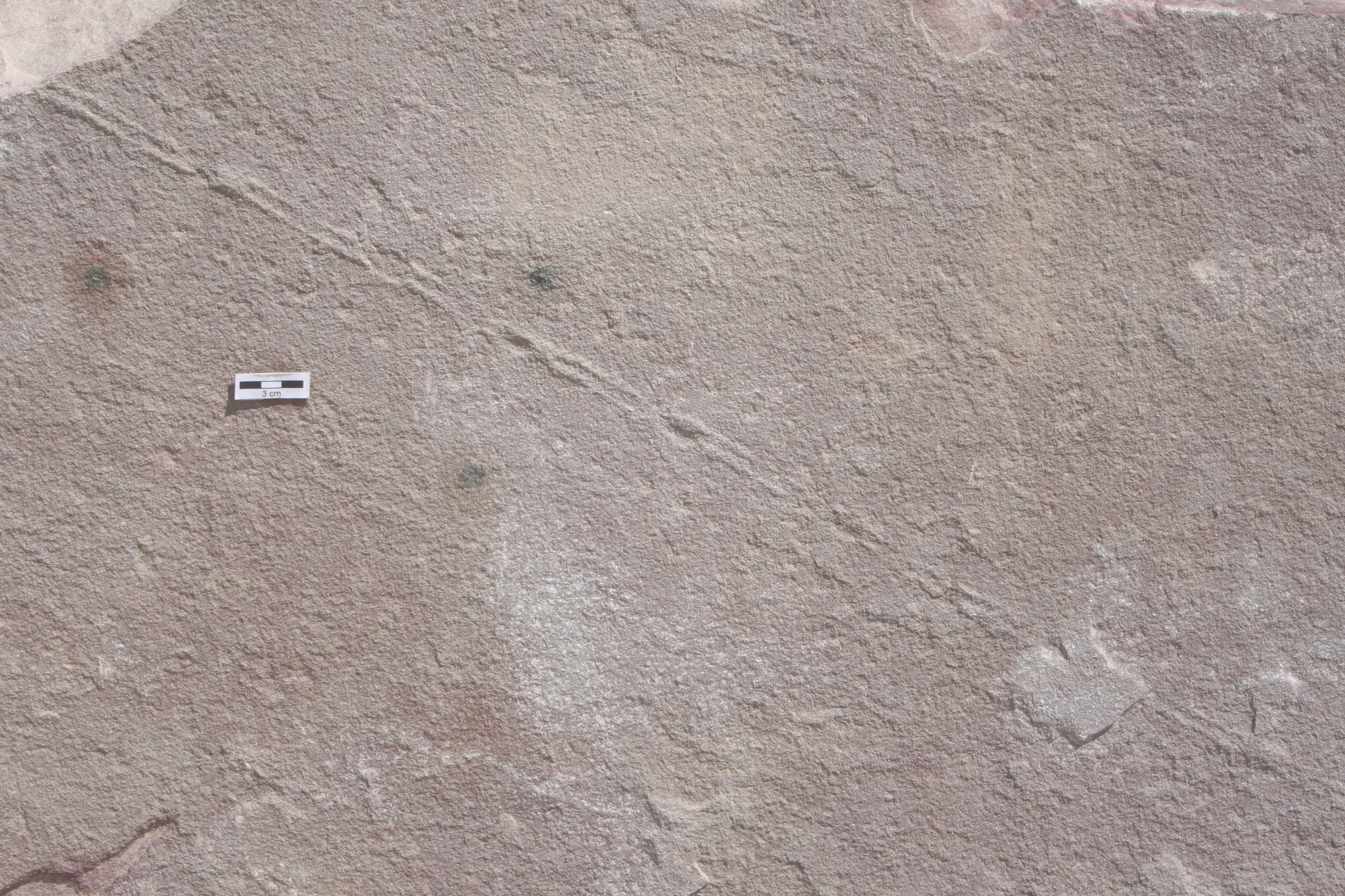 Protichnites in the lower Potsdam Sandstone near Burke, NY. These fossils record arthropod locomotion in a subaerial environment and represent some of the oldest indicators of life traversing terrestrial environments. For a complete discussion of these fossils, please see Hagadorn, J. W., Collette, J. H., and Belt, E. S., 2011, Eolian-aquatic deposits and faunas of the Middle Cambrian Potsdam Group: Palaios, v. 26, no. 5, p. 314-334.